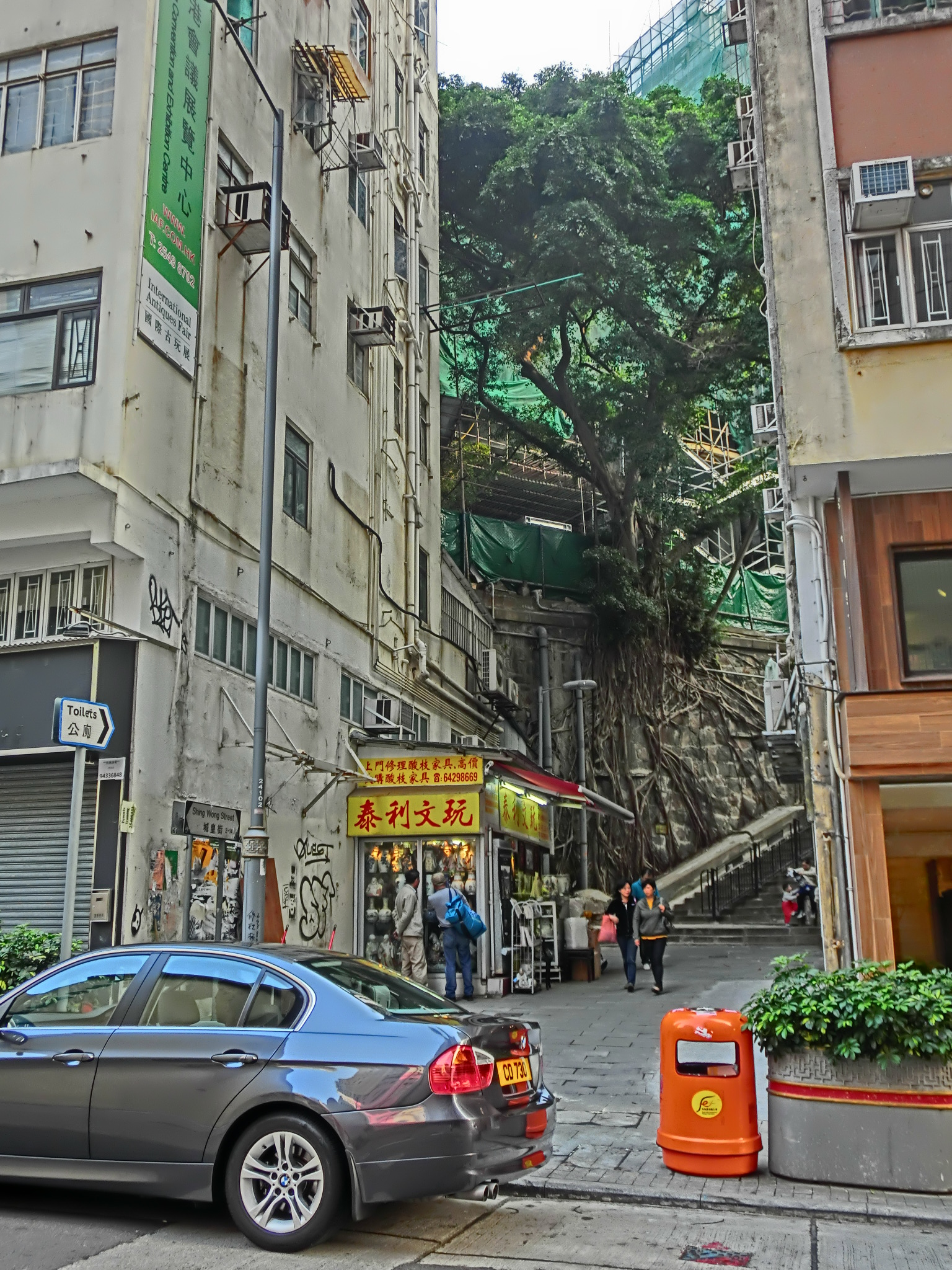 上環荷李活道, Hollywood Road, Sheung Wan, Hong Kong